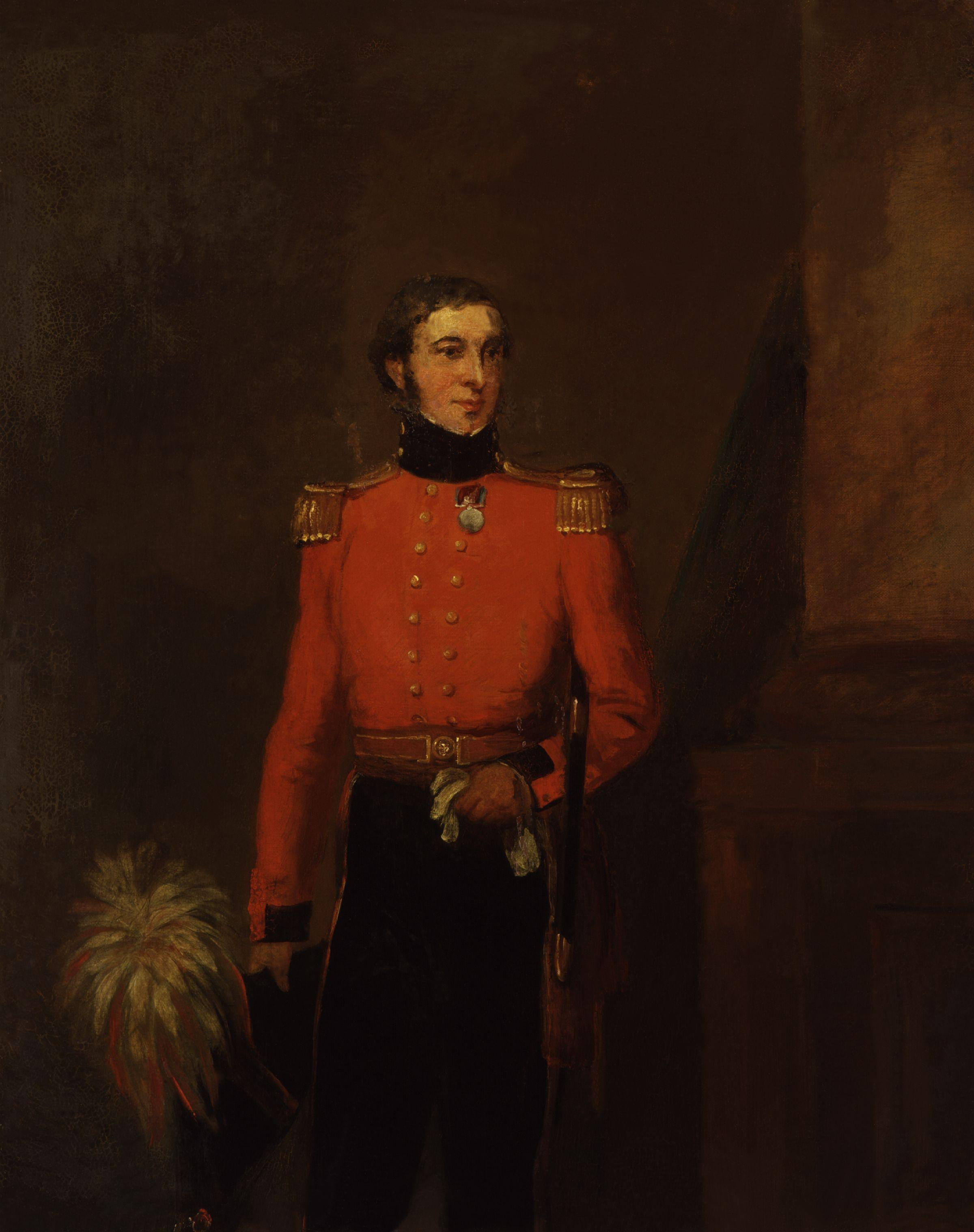 Beaumont Hotham, 3rd Baron Hotham, by William Salter (died 1875). All images in this batch have been confirmed as author died before 1939 according to the official death date listed by the NPG.